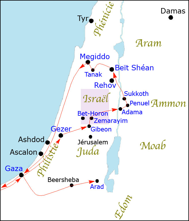 The map shows the route of Sheshonq 1 military campaign in Canaan. The names of the cities written in blue are those which appear in the relief of Karnak. Drawn using Mario Liverani, Israel's History and the History of Israel, p.102, and Karnak sources.